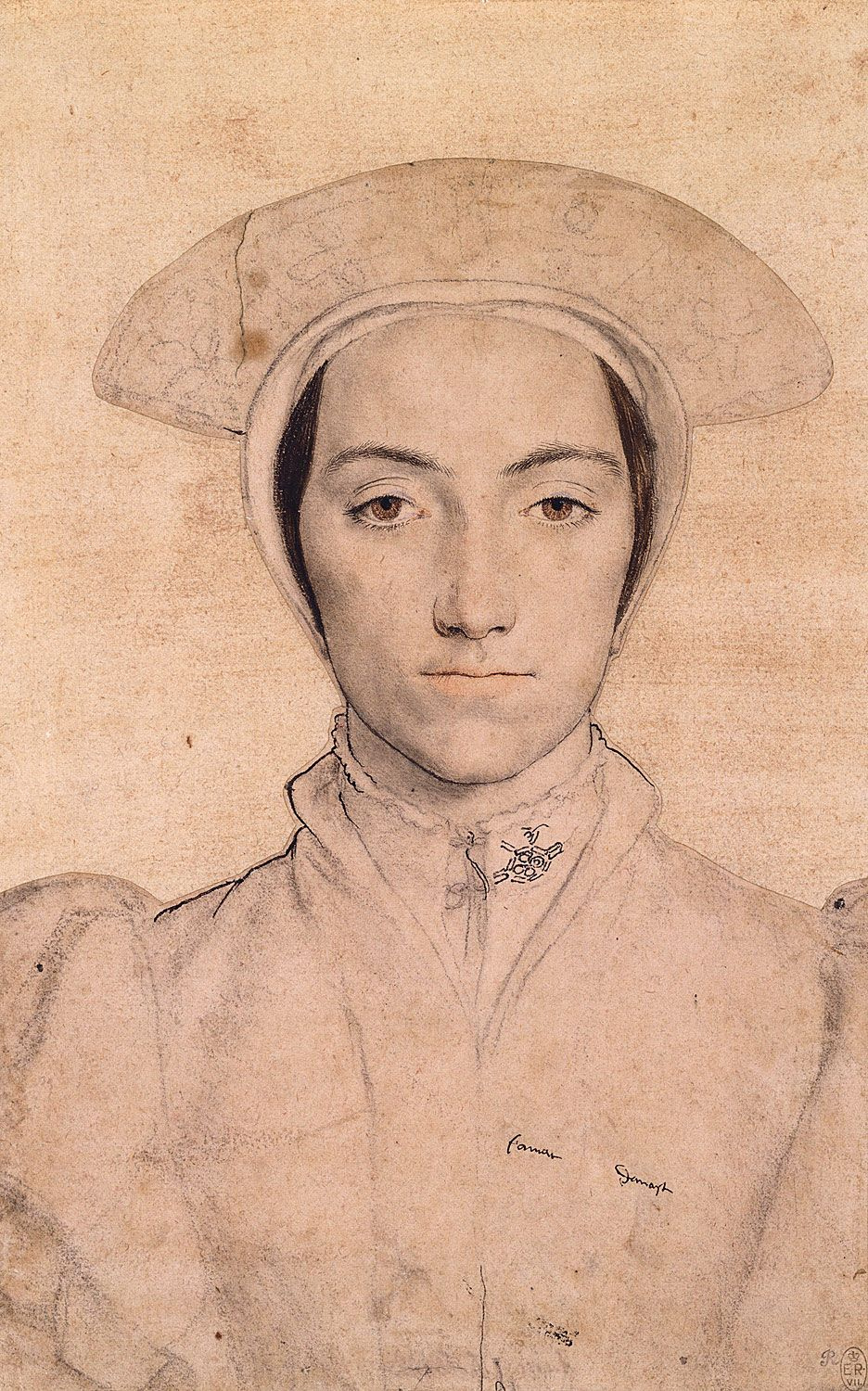 A portrait drawing of an unidentified woman by Hans Holbein the Younger.